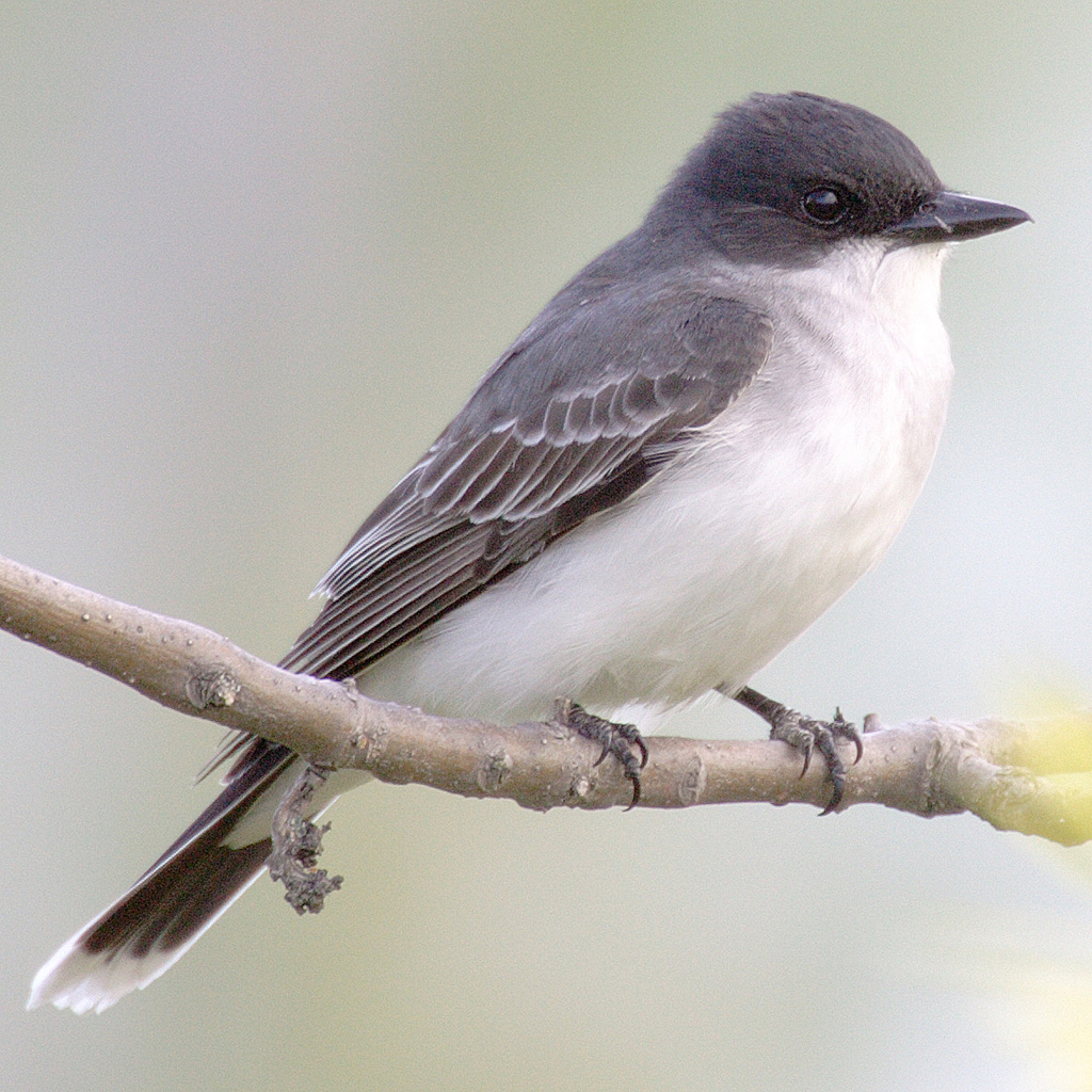 Eastern Kingbird -- Humber Bay Park, Toronto, Canada